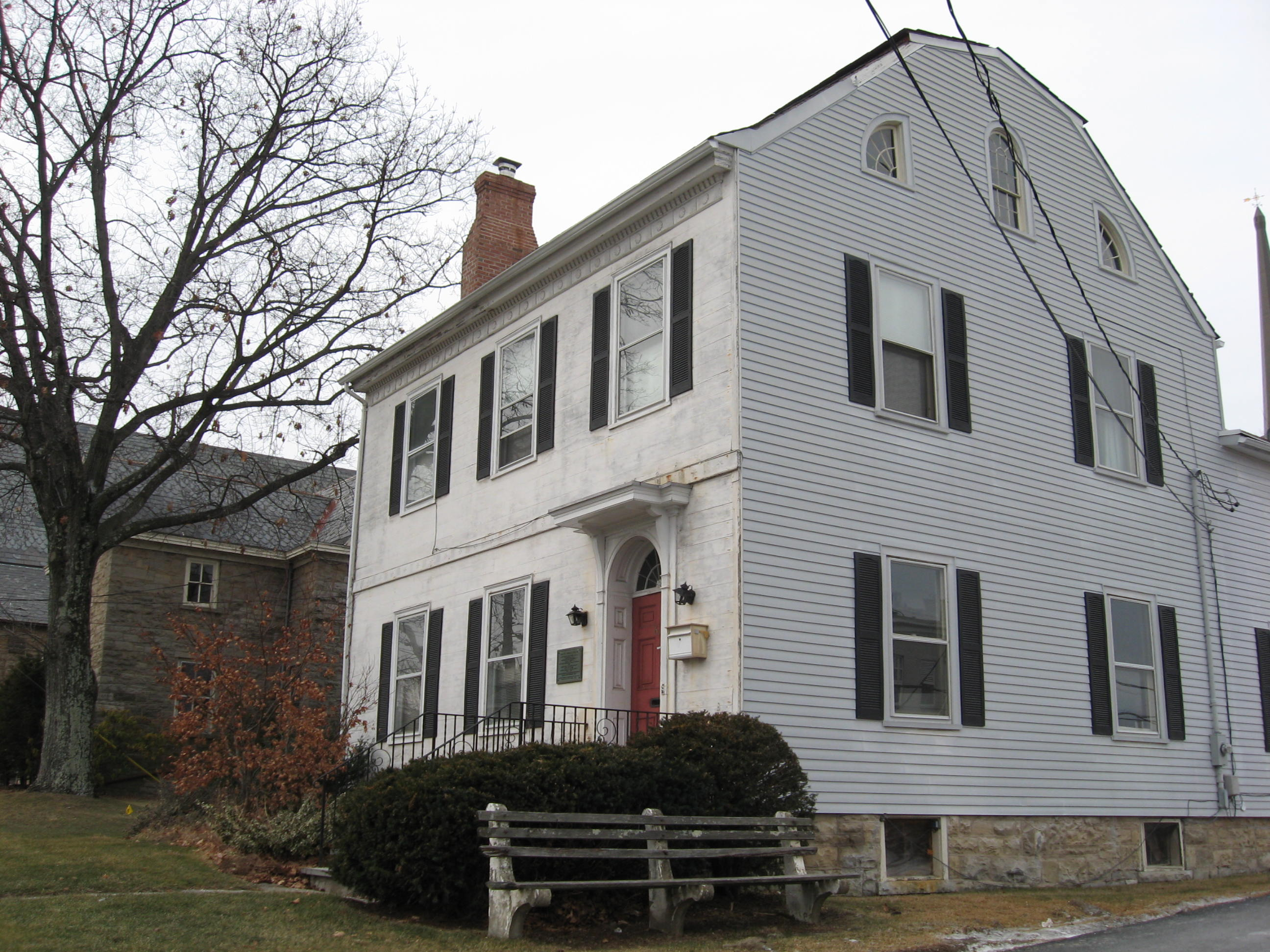 Originally built in 1785 as the home of Colonel Thomas Anderson, it was relocated half a block south in 1896 and currently belongs to Christ Church, Newton.